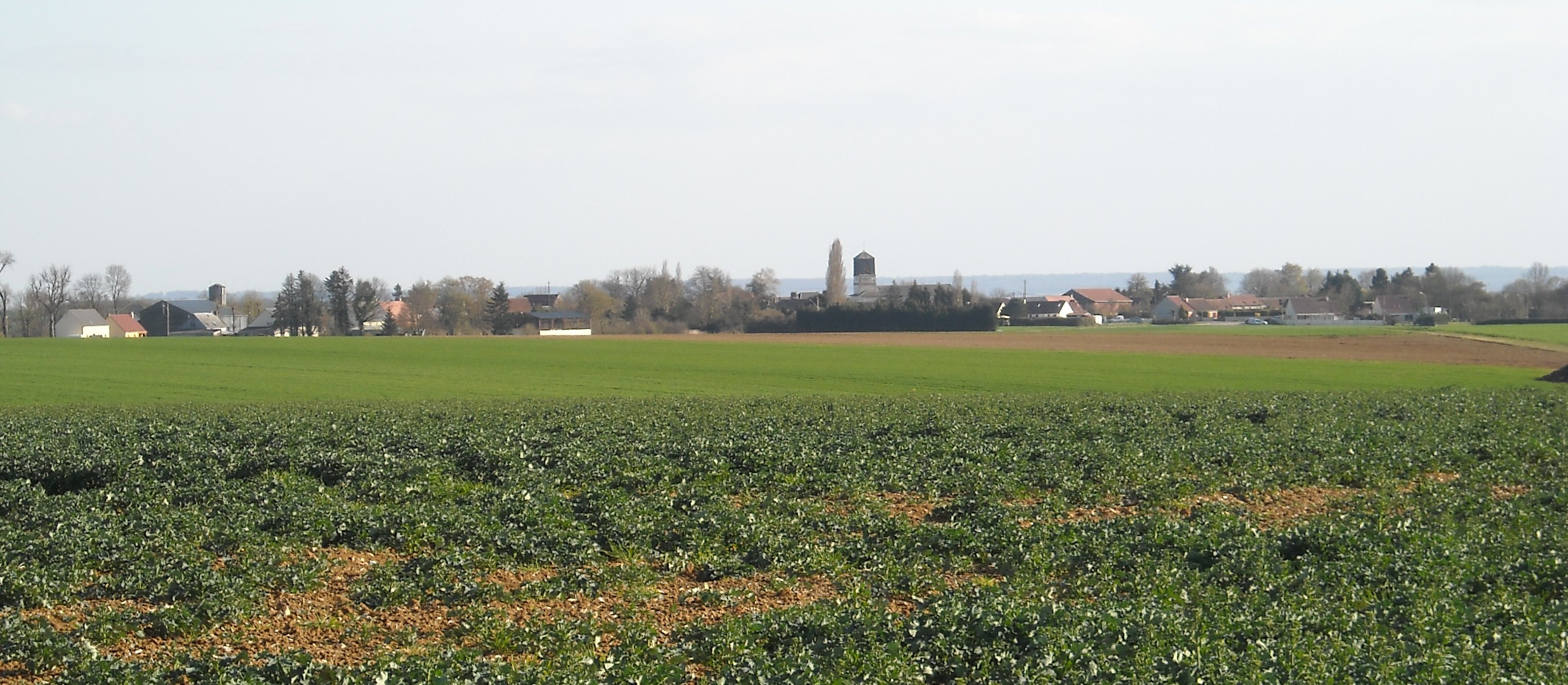 Picture of a small town in France: Mesnil sur Bulles, picture taken from GR124